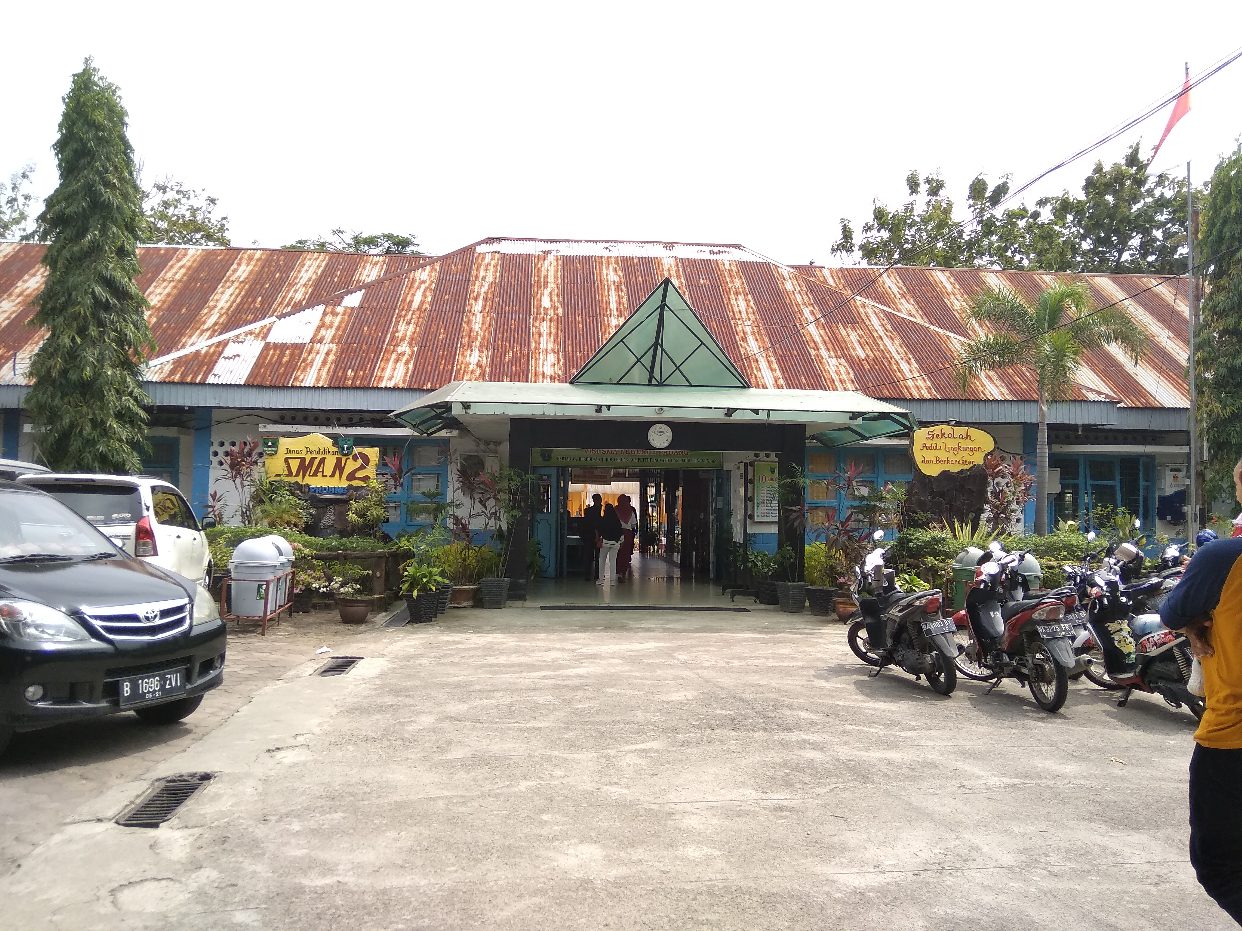 Building of Padang State Senior High School 2 on Musi street, North Padang, Padang, West Sumatra, Indonesia.